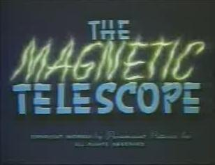 Screenshot of "The Magnetic Telescope" animated short.